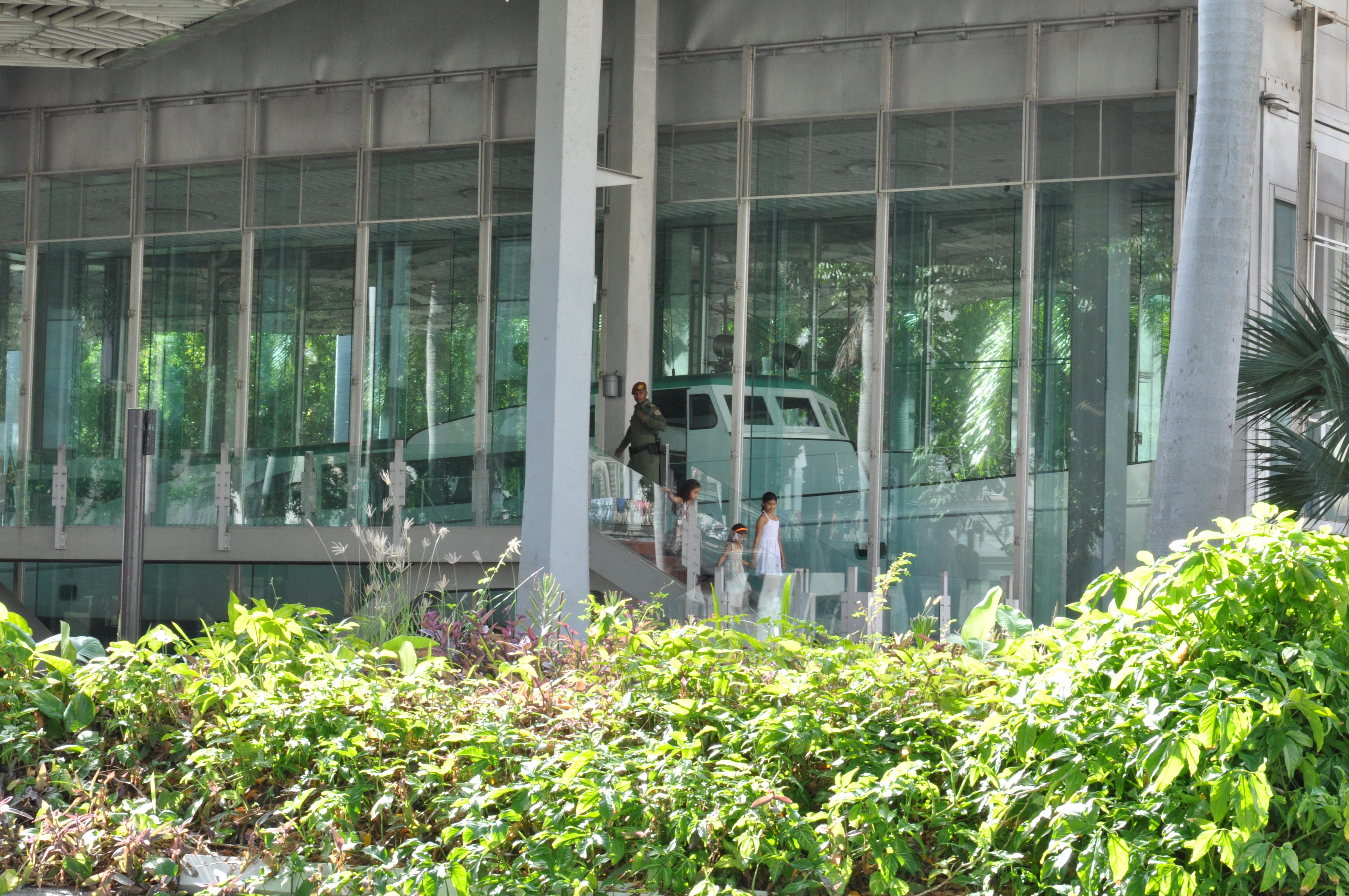 Yacht "Granma" in the Museum of the Revolution in Havana